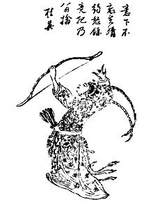 An illustration of Mu Guiying from a 19th century novel print. Originally published in 1862 (同治元年), revised in 1882 (光緒八年)